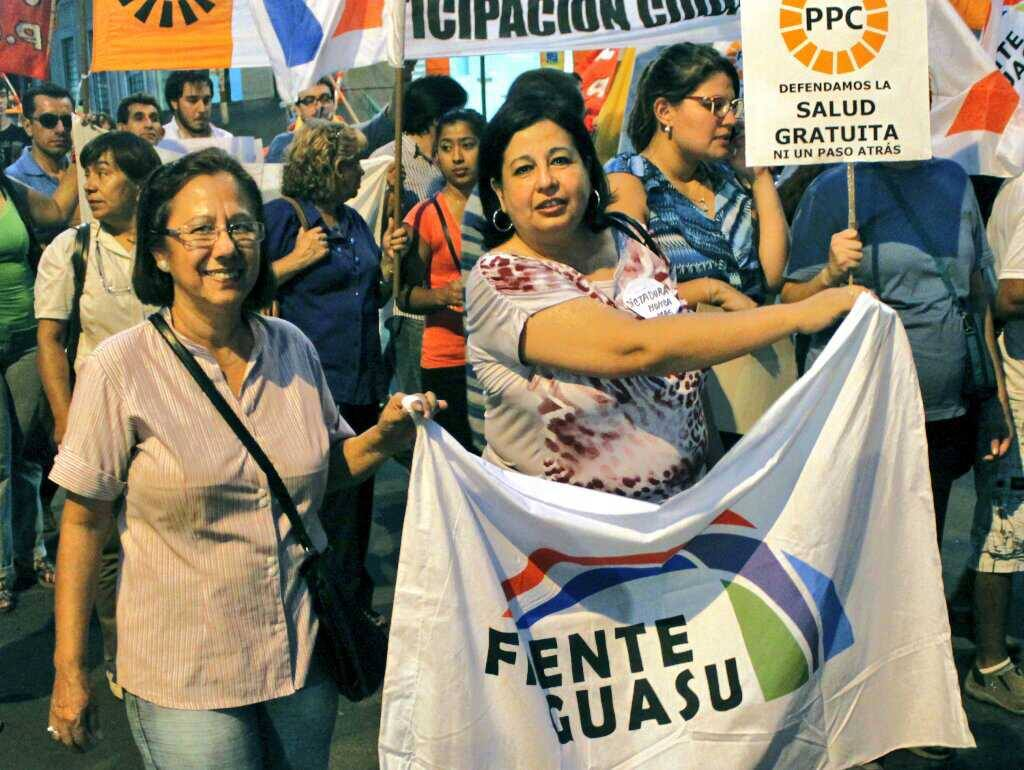 Aida Robles y Esperanza Martinez